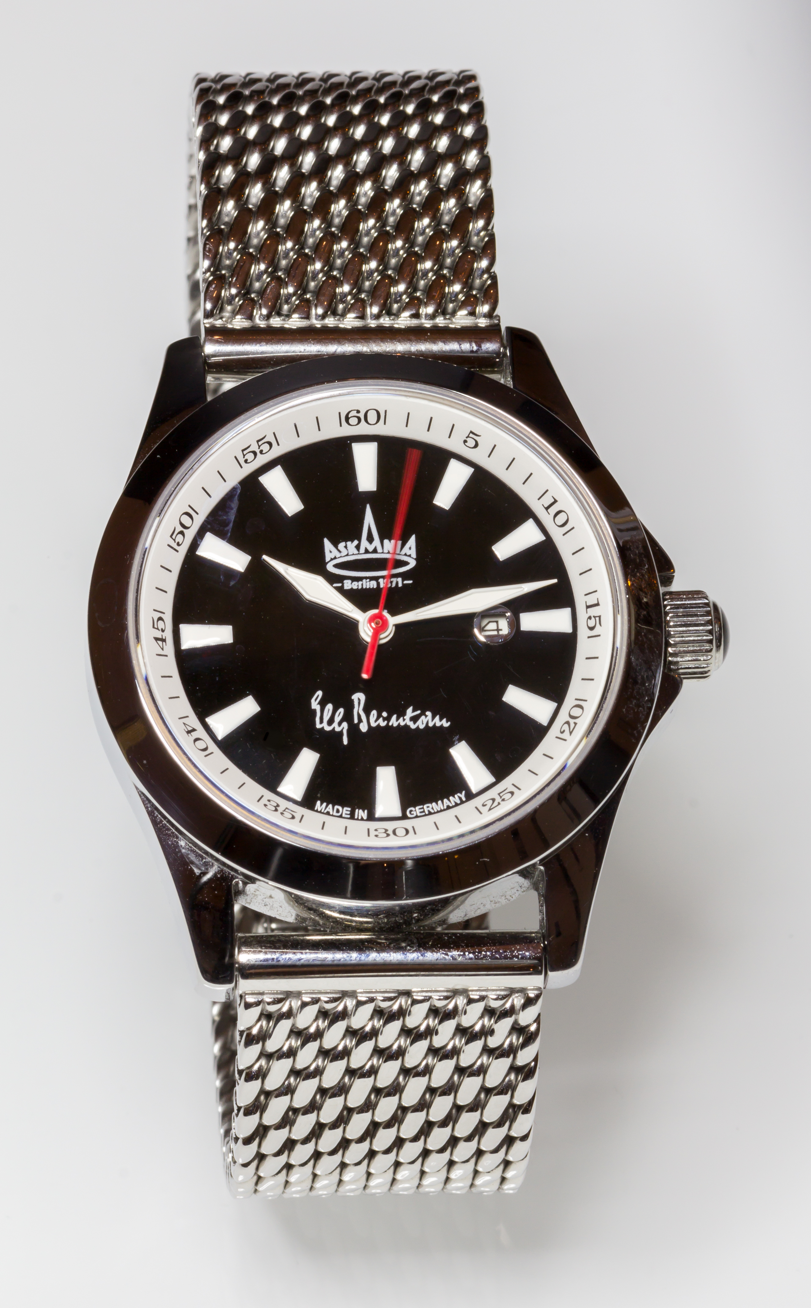 Automatic watch by Askania, model "Elly Beinhorn"